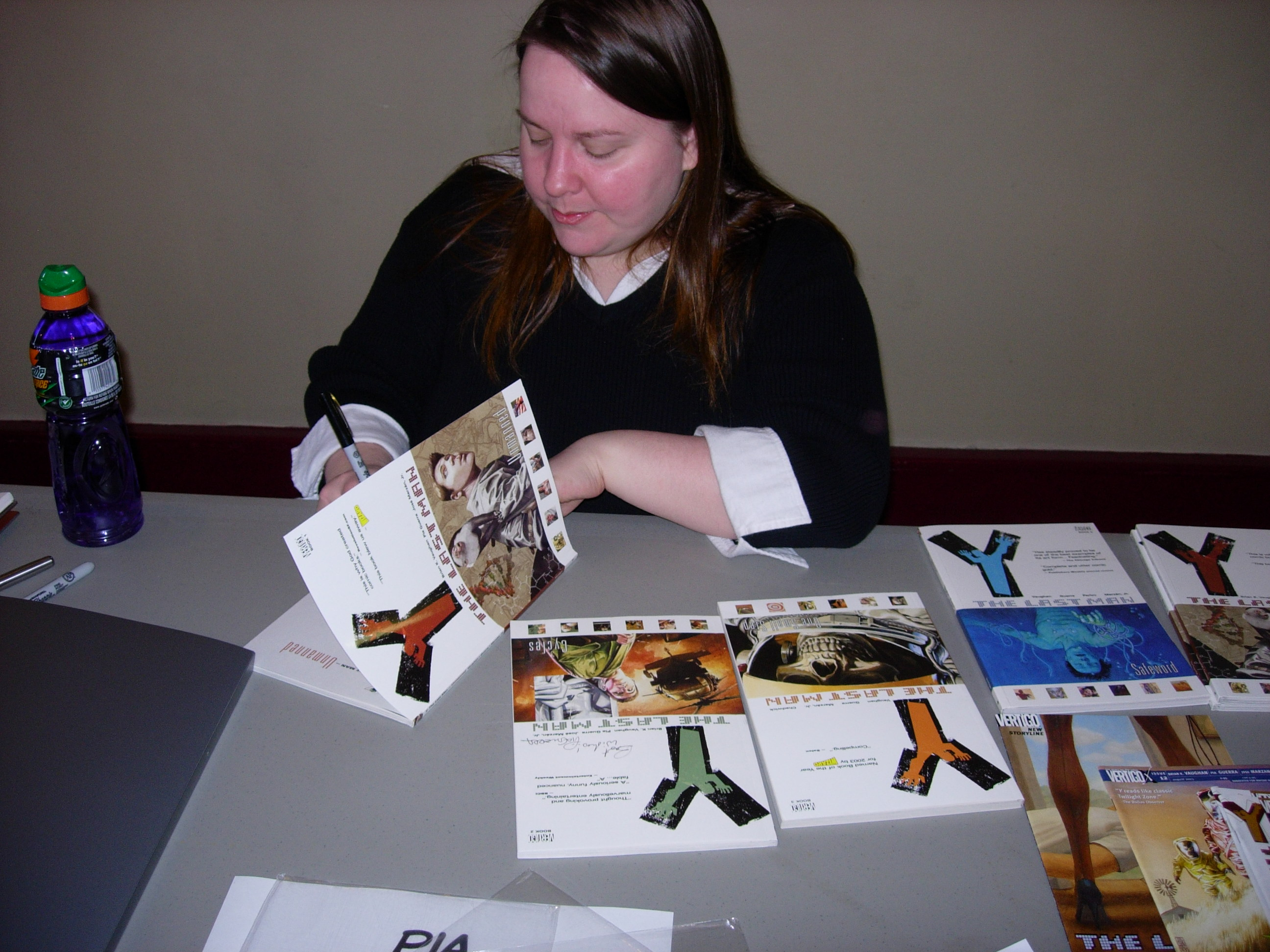 Photo of Pia Guerra, artist of Y: The Last Man, taken by myself at the Vancouver Comicon, March 2006.